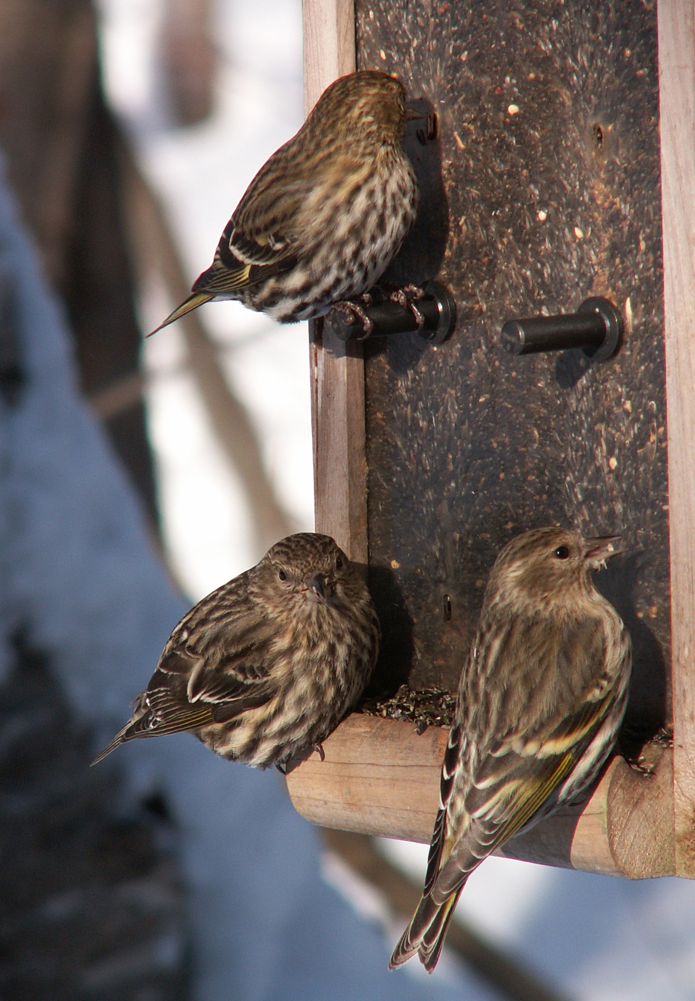 Pine siskins (Carduelis pinus) on feeding on thistle, Cap Tourmente National Wildlife Area, Quebec, Canada.